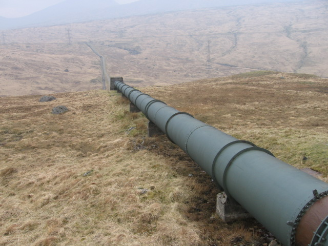 Pipe Line below Sgairneach Mor